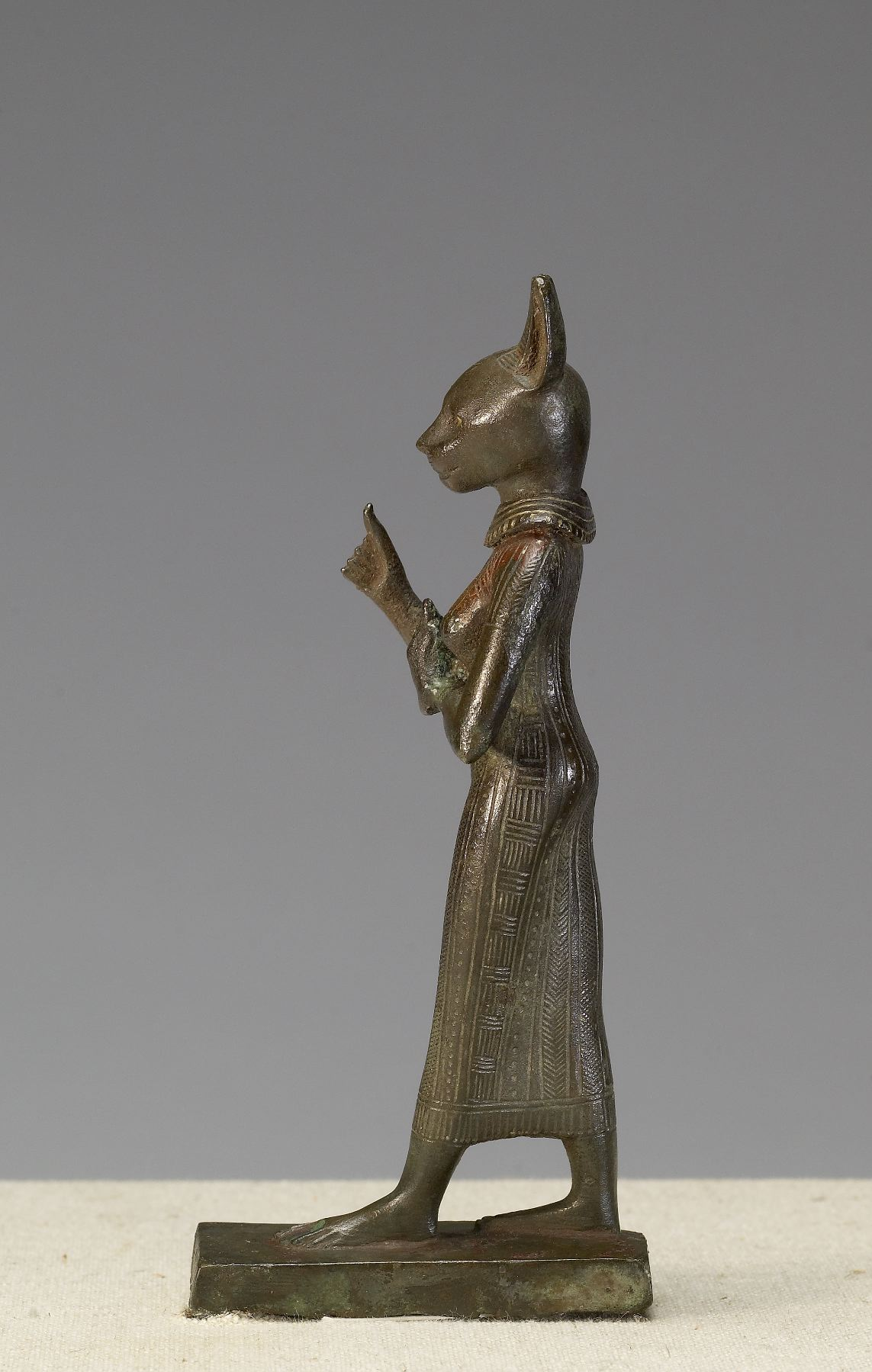 Bastet, often represented with the head of a lion or a cat, was a goddess both of joy and pleasure and of warfare. Here, she holds a protective ritual instrument, an usekh-collar surmounted by a feline head with a sun-disk.